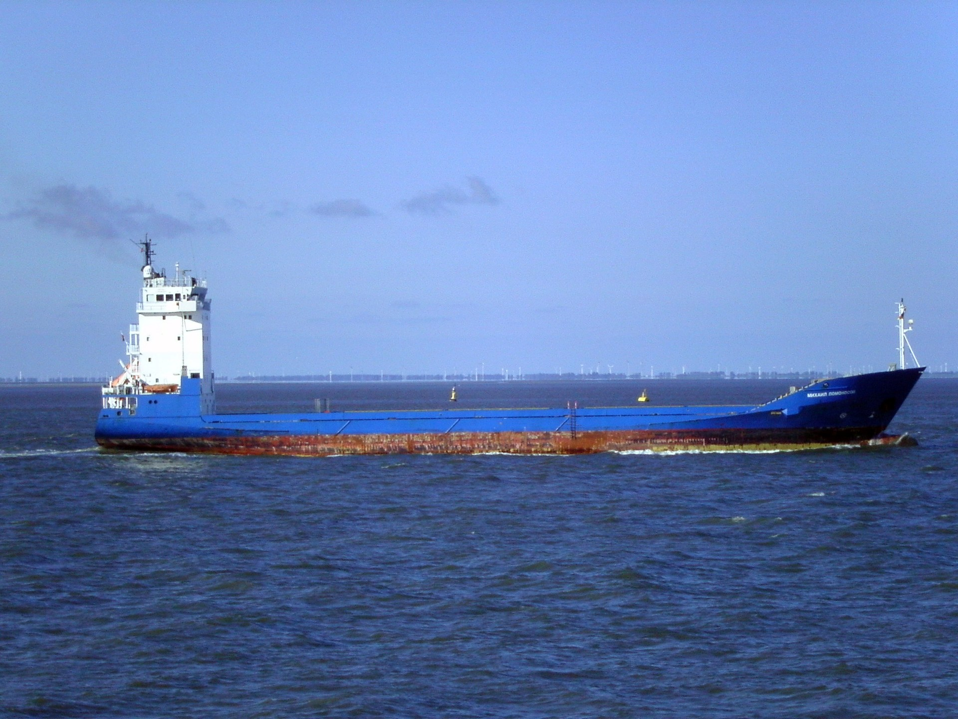 The cargo ship Michail Lomonosov inbound on the River Elbe near Cuxhaven. The ship is being operated by Northern Shipping Company of Russia.